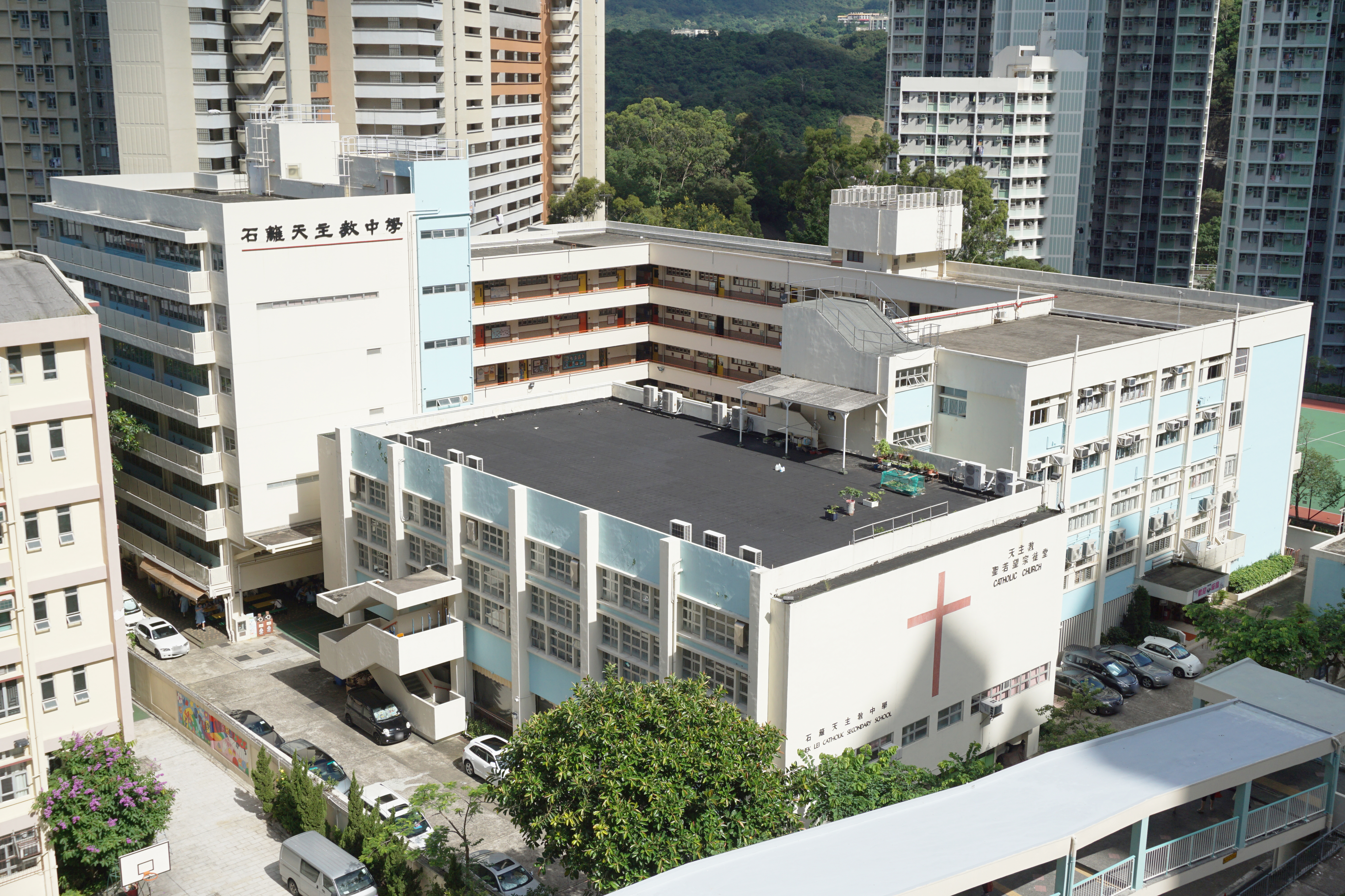 Shek Lei Catholic Secondary School in Shek Yam, Hong Kong.